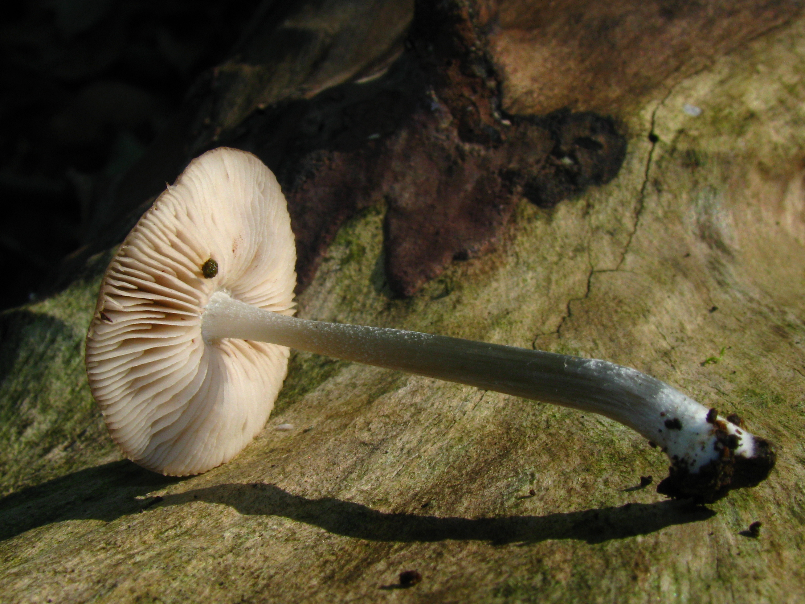 A fruit body of the psychedelic agaric fungus Pluteus cyanopus. Photographed in Wayne National Forest, Athens Co., Ohio, USA.